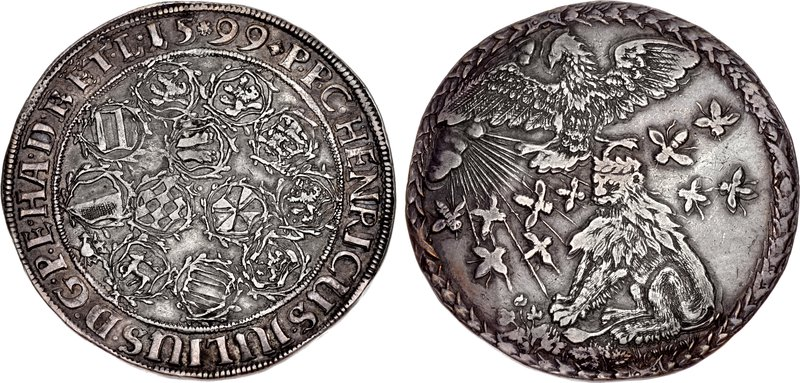 GERMANY, Braunschweig-Wolfenbüttel (Herzogtum). Heinrich Julius. 1589-1613. AR Taler (41mm, 29.05 g, 12h). Osterrode mint. Dated 1599. Twelve coats-of-arms / Crowned lion seated left, surrounded by ten wasps; eagle with wings spread above; to left, rays emerging from cloud. Welter 630; Davenport 9093. Good VF, toned.